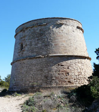 Defense Tower of Portinatx, Eivissa island, Spain